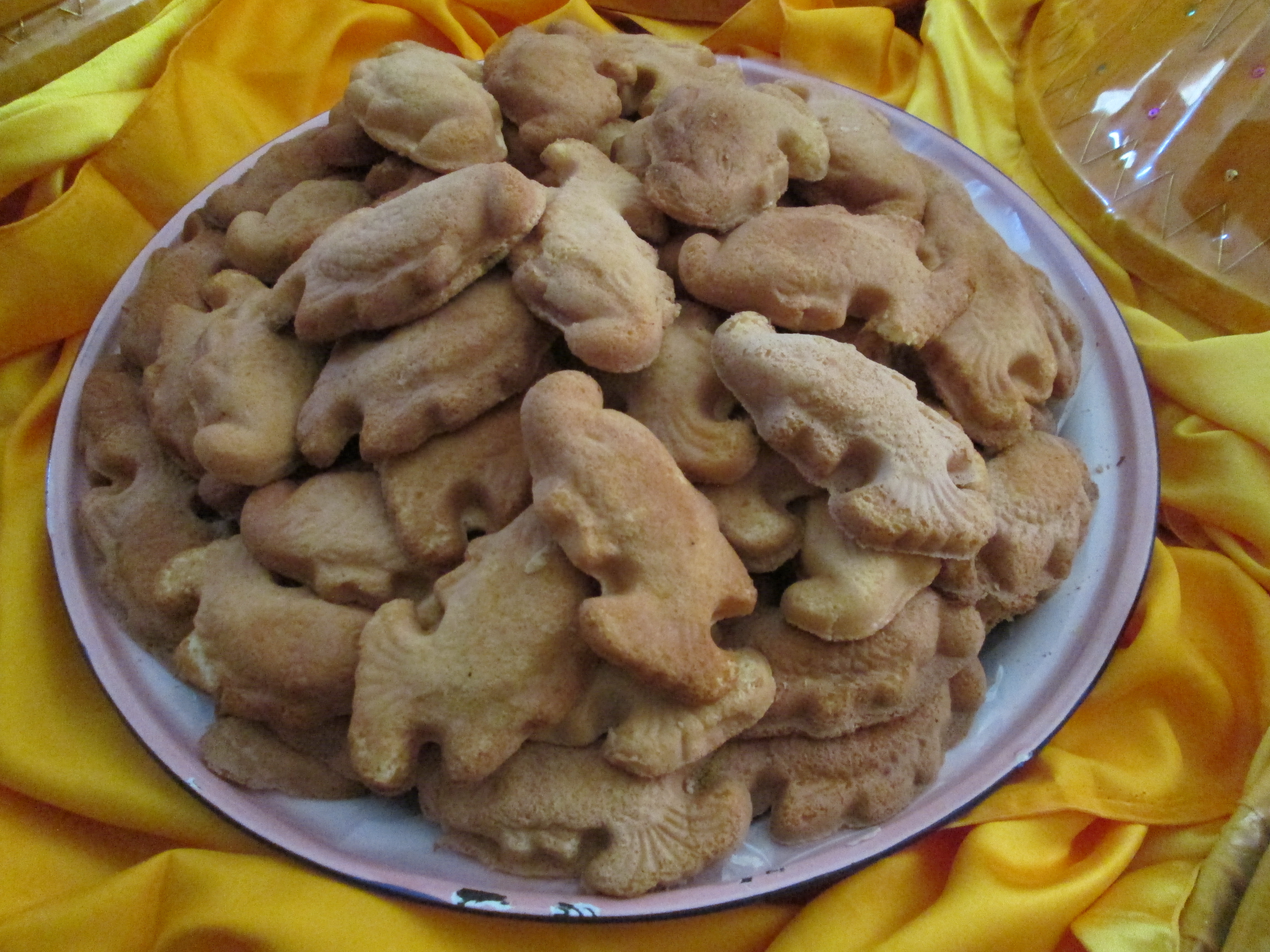 Bhôi, a kind of Acehnese cakes